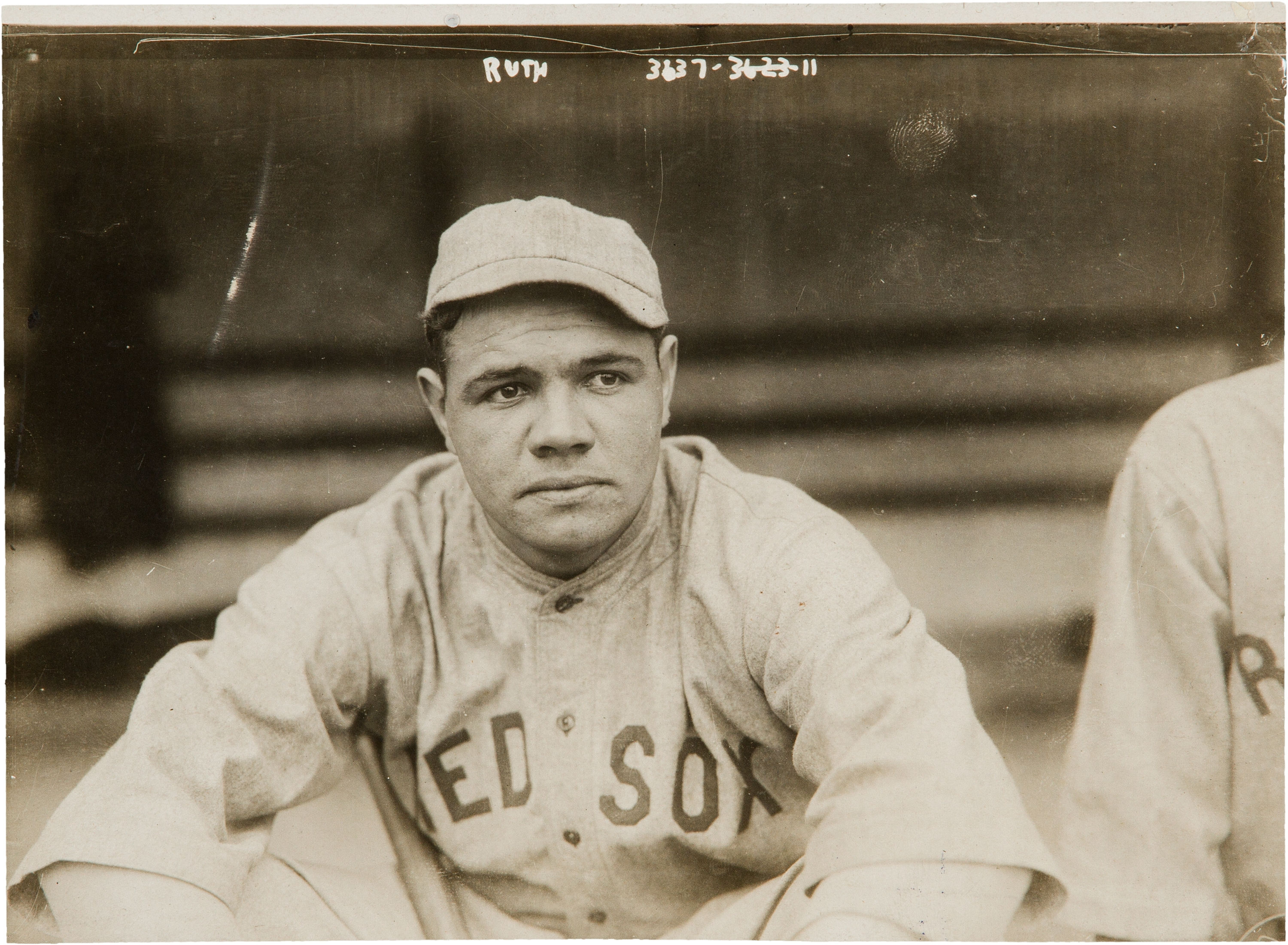 Photograph Babe Ruth